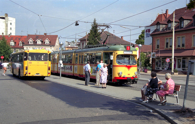 Durlach tram terminus